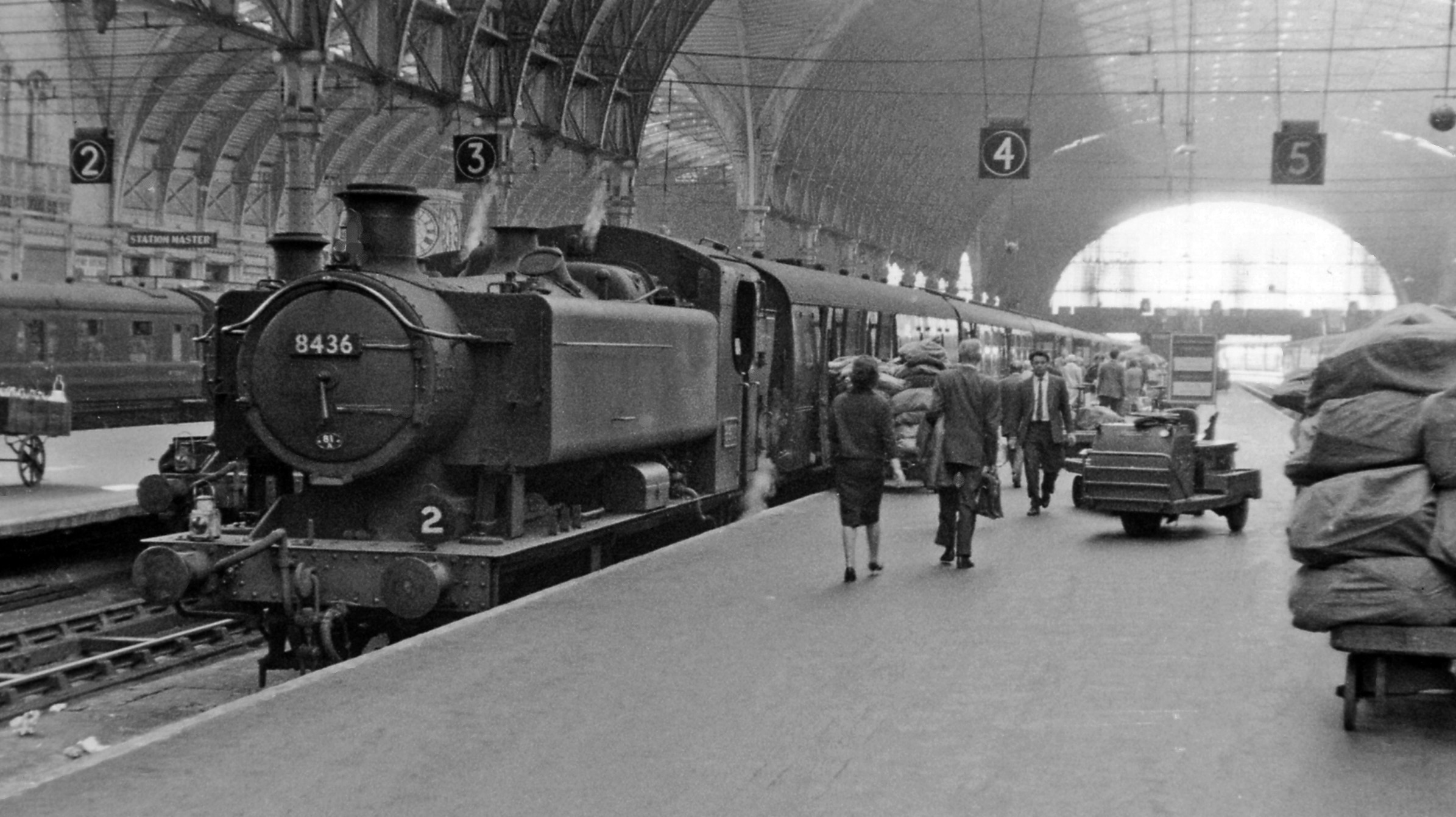 Large Pannier Tank on empty stock work at Paddington. View outward from near barriers on Platforms 4/5. Hawksworth '9400' class 0-6-0PT No. 8436 (built 5/53, withdrawn 6/65) has brought in from Old Oak Common the stock for the next express from Platform 4. Note the trolleys piled with bags of Mail.